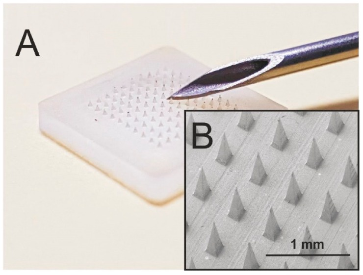 A small microneedle array is compared with a standard hollow-boar needle to demonstrate size.